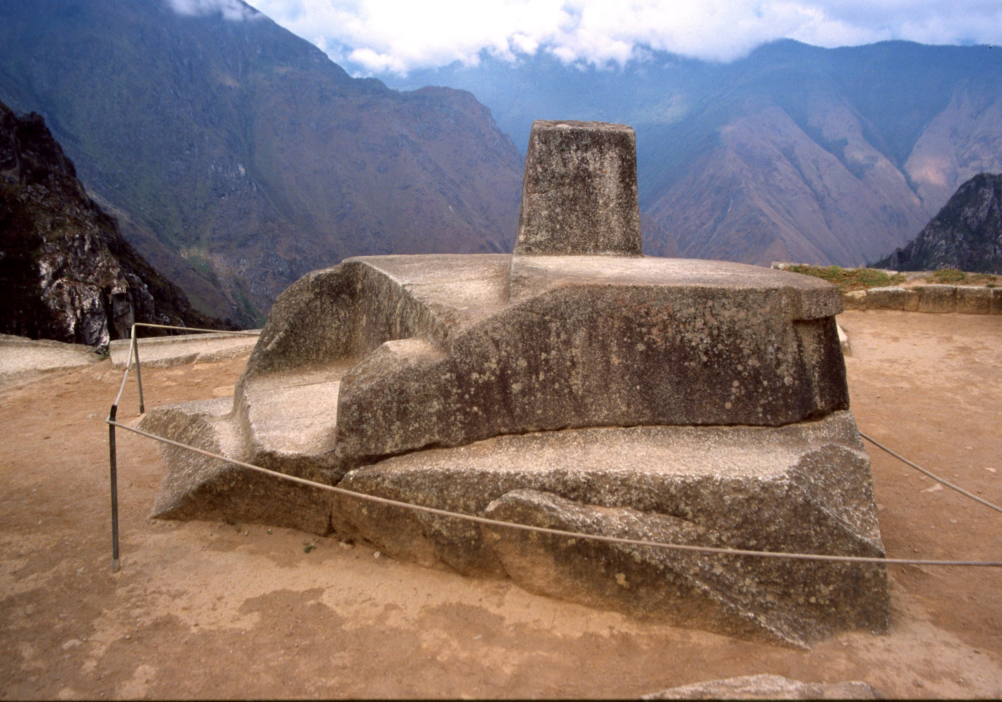 Machu Picchu, Perú. Intiwatana.